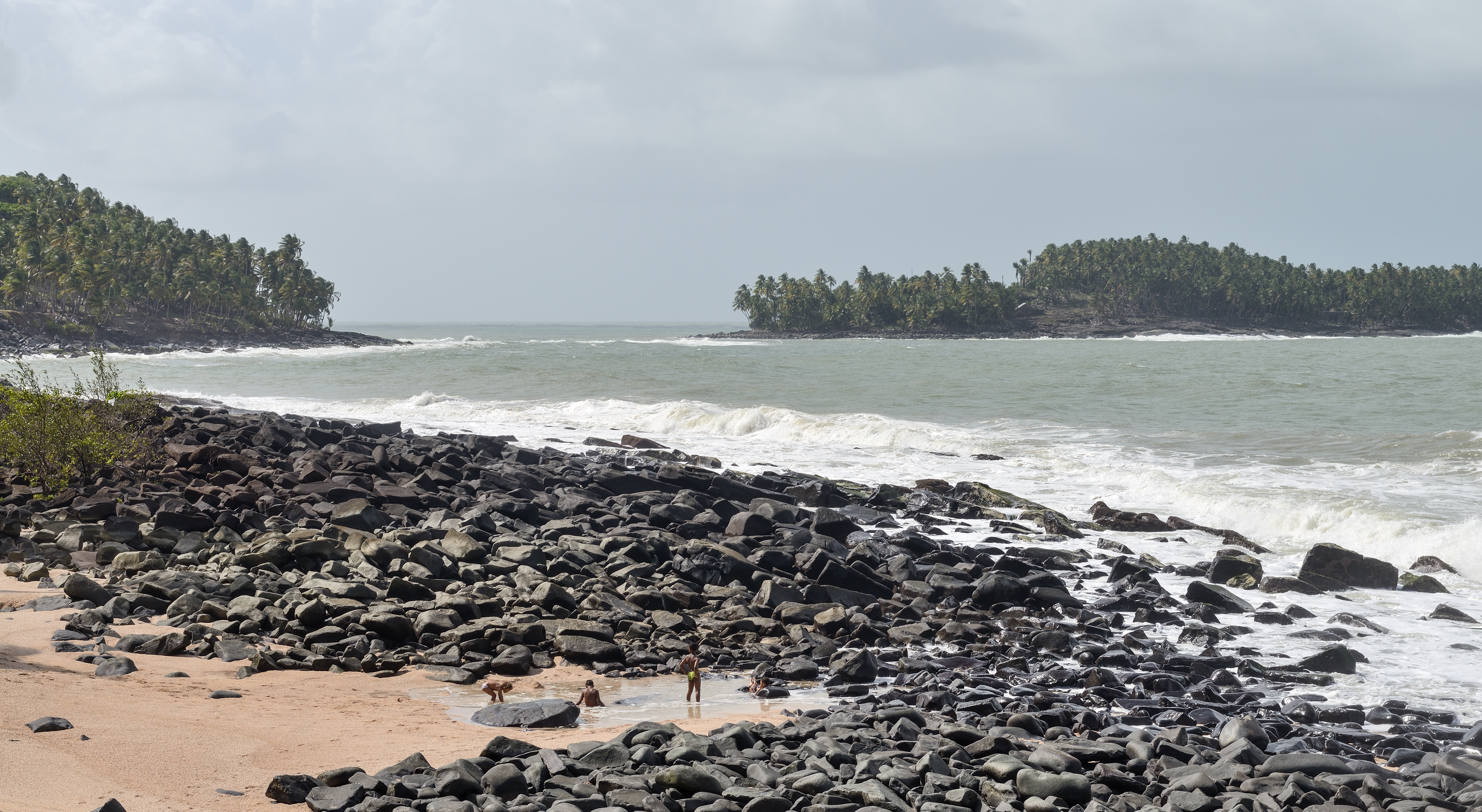 French Guiana: St-Joseph Island and Devil's Island. On the latter iasland, in the background, the two huts where Alfred Dreyfus was emprisoned can be seen. See image notes.